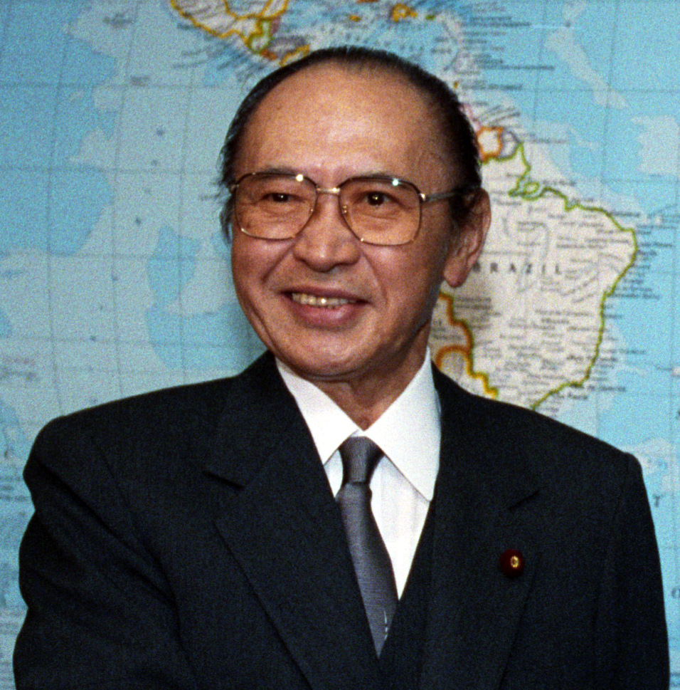 Michio Watanabe, Japanese Deputy Prime Minister and Minister of Foreign Affairs, at the Pentagon, Washington, D.C., Feb. 12, 1993. OSD Package No. A07D-00132 (DOD Photo by Robert D. Ward) (Released) (excerpt from the original text)